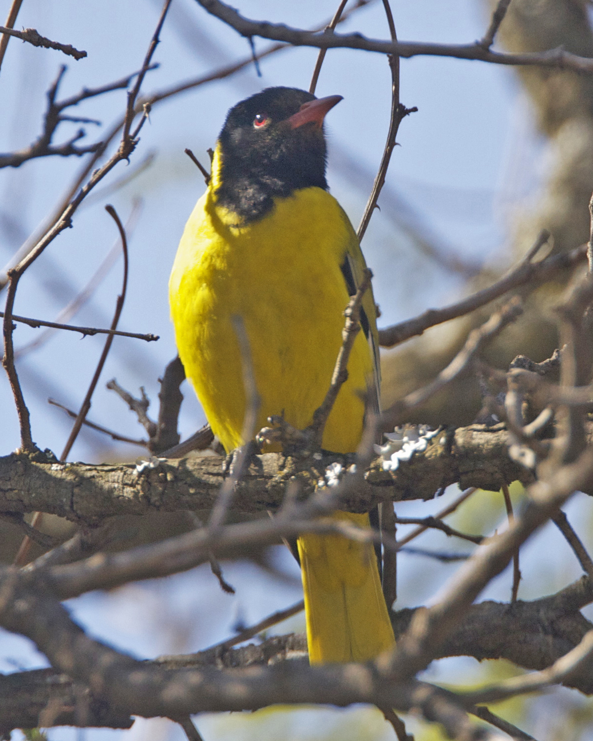 ws bho O larvatus 690V1226